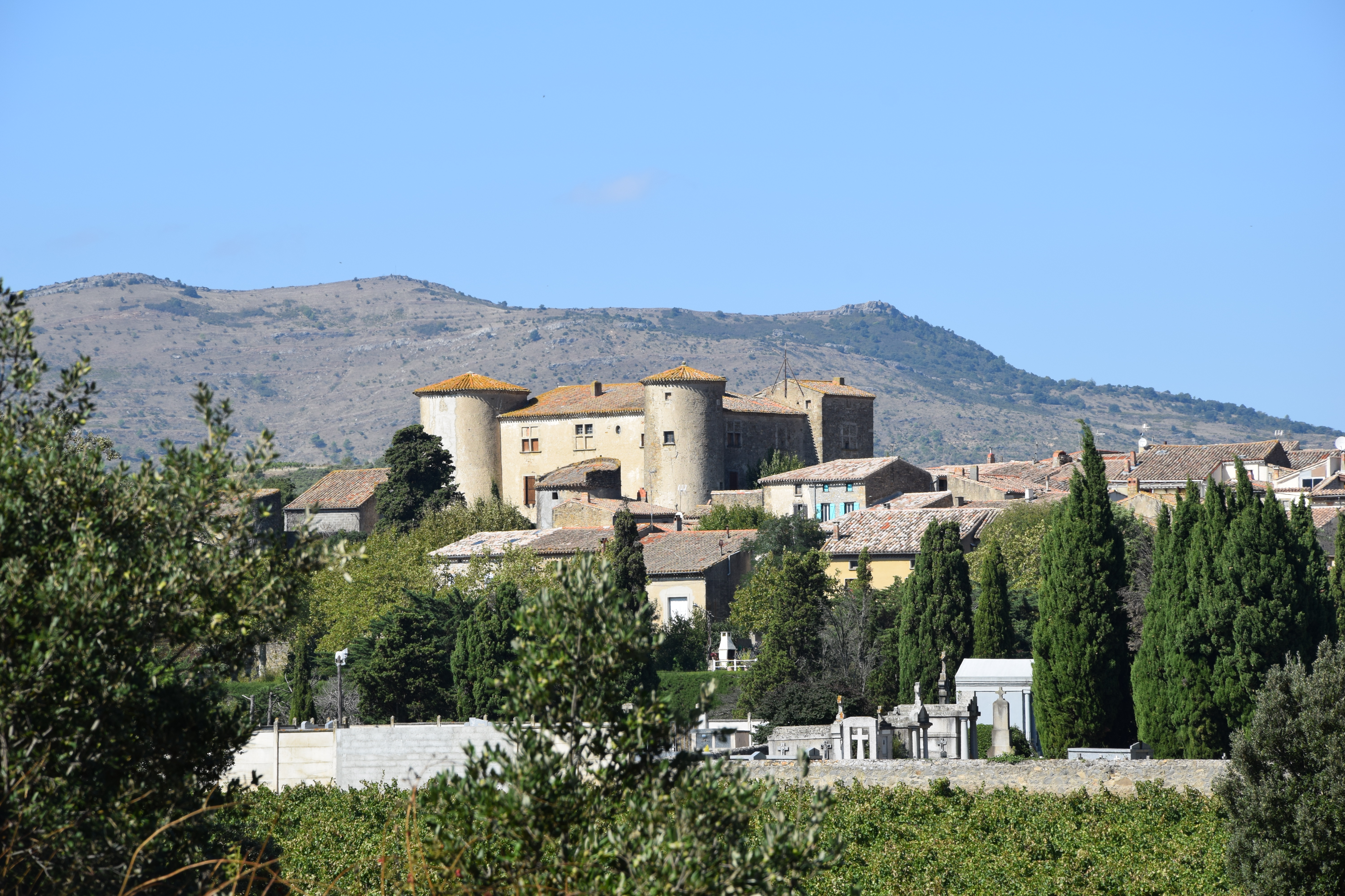 Castle of Serviès-en-Val